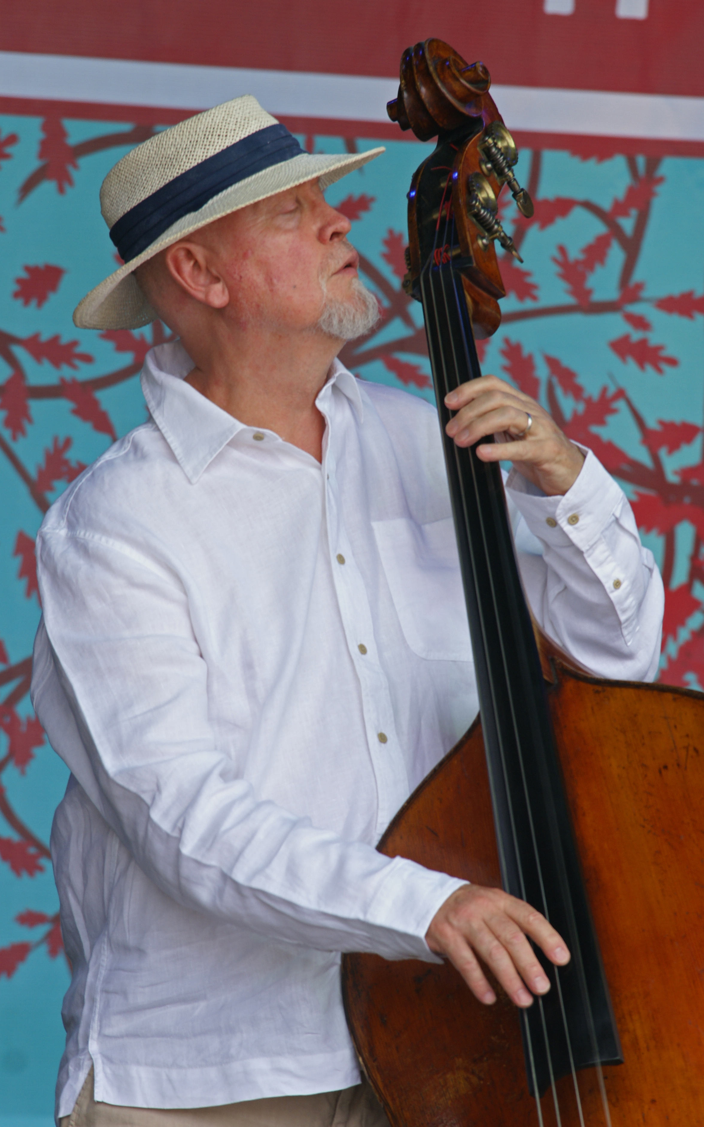 Legendary bassman Danny Thompson backing Martin Simpson at the 2008 Folk by the Oak Festival at Hatfield House, England